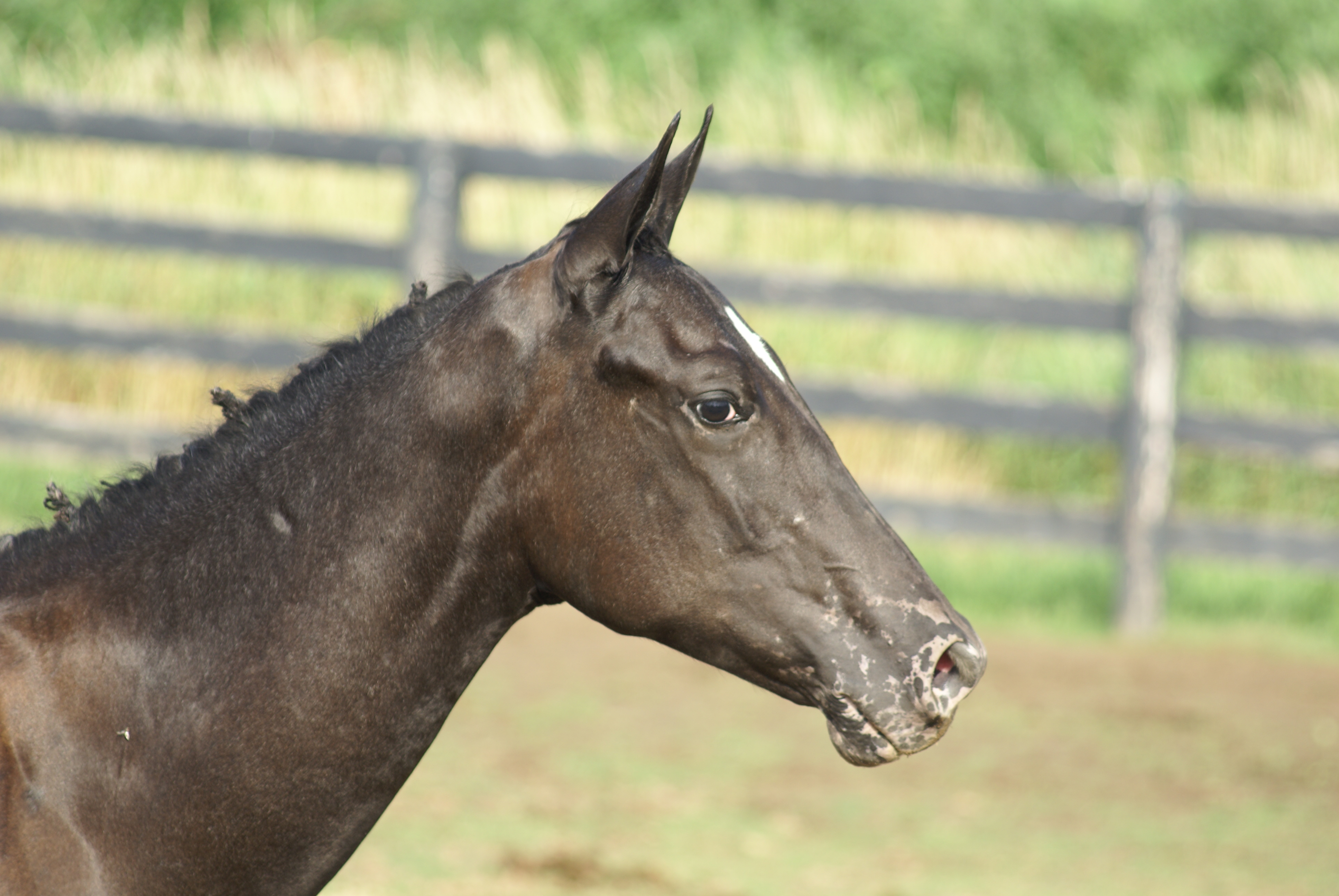 Mottled skin on Nose- Luke N Pretty Cool Appaloosa Colt